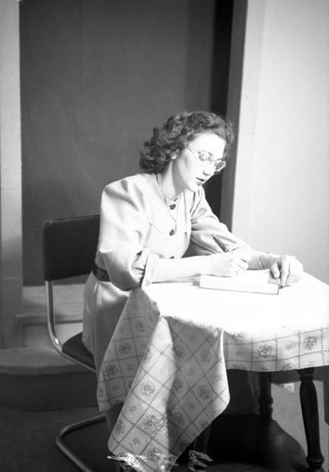 A woman writing at a table; studio setting (?) February 1948 21/4 x 31/4 negative This is one of 54 photos in the album “Fort Macleod’s Anonymous”. Most are shot in Fort Macleod, Alberta in the late 1940s. The donor of the photos purchased them at a garage sale in Pincher Creek. Who are these people? What are they doing? Who were the photographers? What are these places and buildings? Please share your knowledge and help us reclaim your community’s history! Tell us as much as you can about the people and places by emailing the Archives at or leaving a comment here on Flickr. Please tell us where your knowledge comes from – personal memories, local history research, or grandpa’s tips. * The CAPITALIZED text in the descriptions was copied from the envelopes in which the negatives were found. Thank you! To obtain high quality and larger reproductions of this image please visit the Galt Museum & Archives website: and include this number in your request: 20121093355